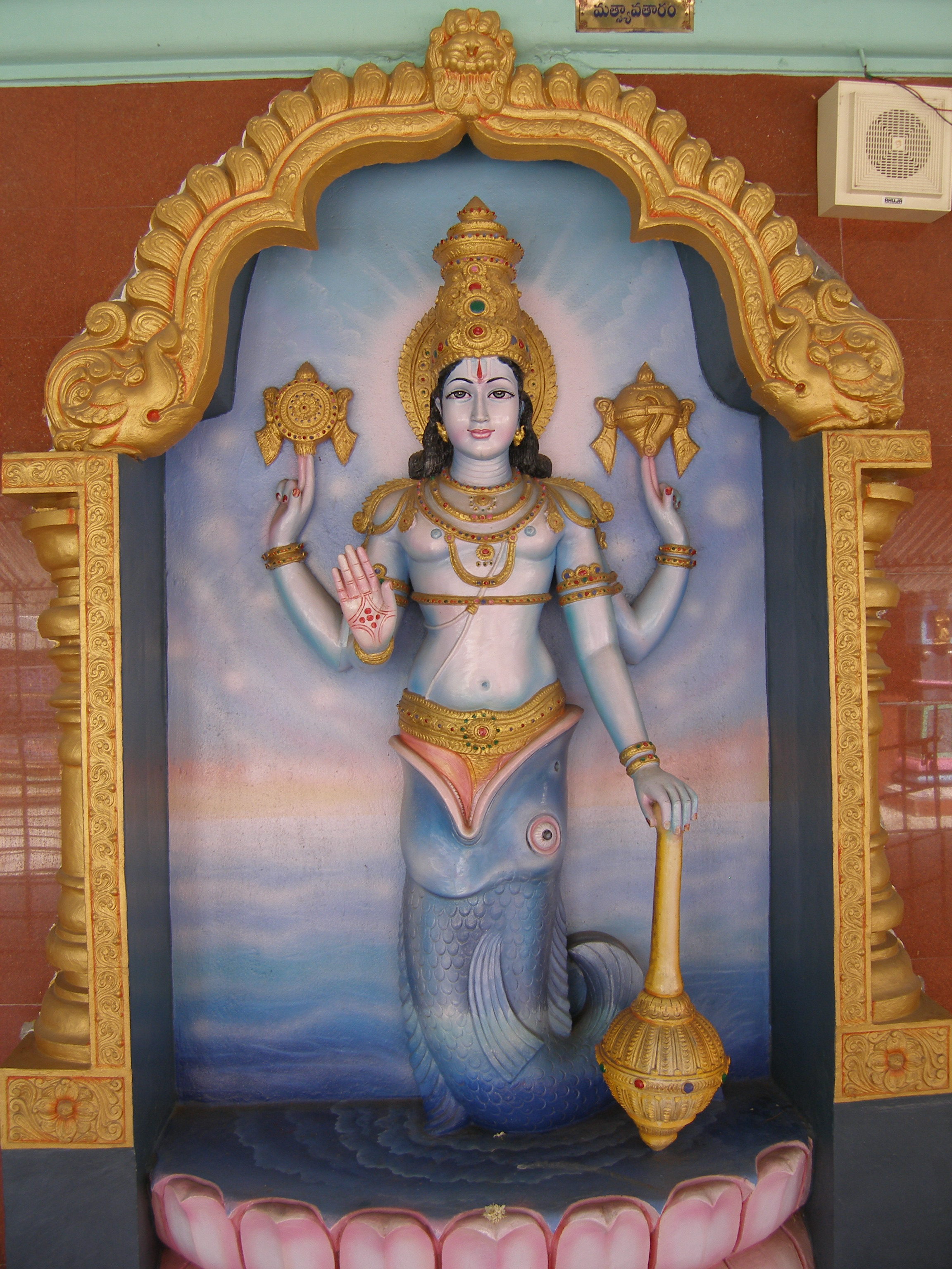 Matsyavatara of Vishnu at Narayana Tirumala.